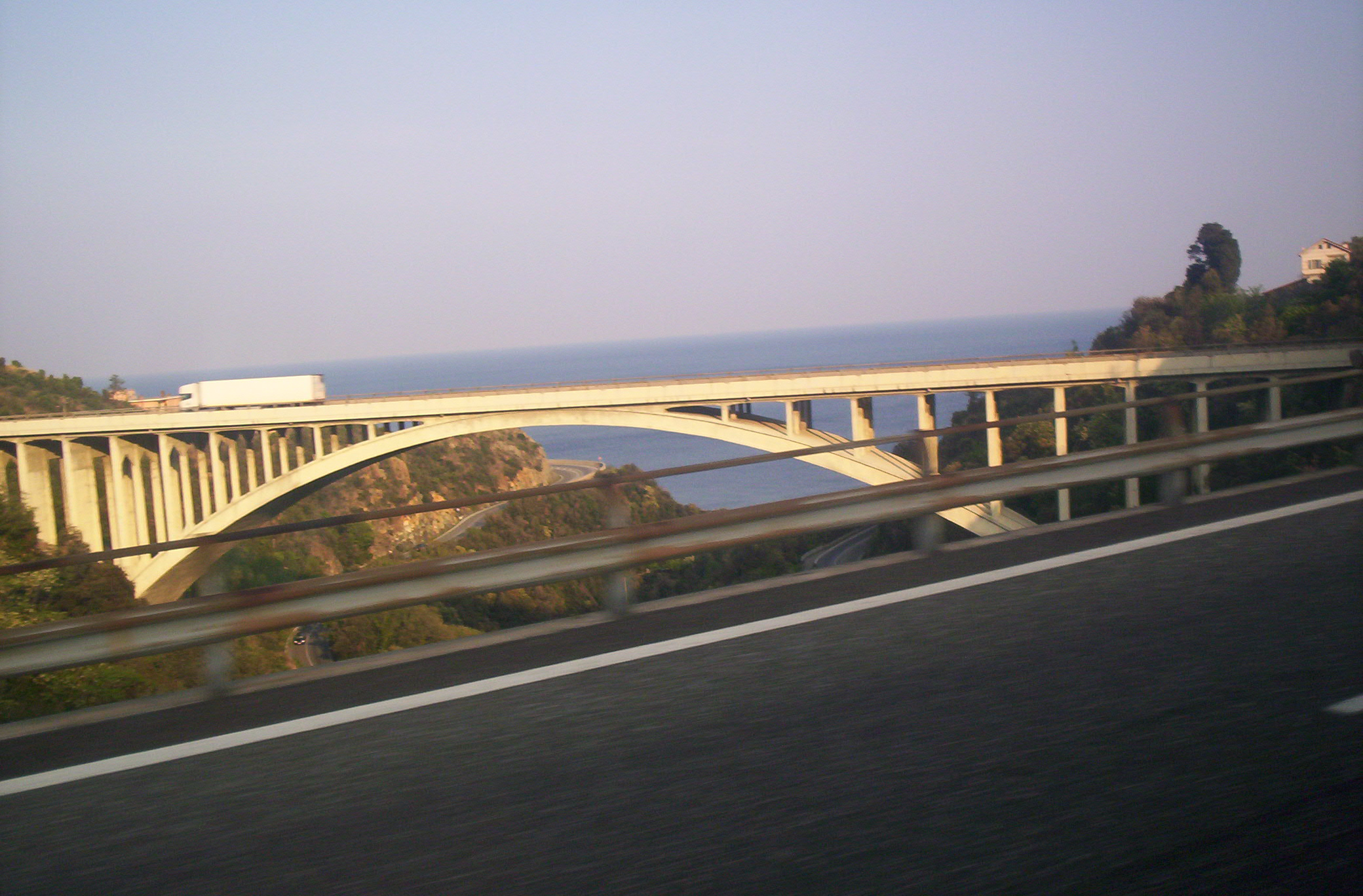 Mediterranean Sea and Italian A10